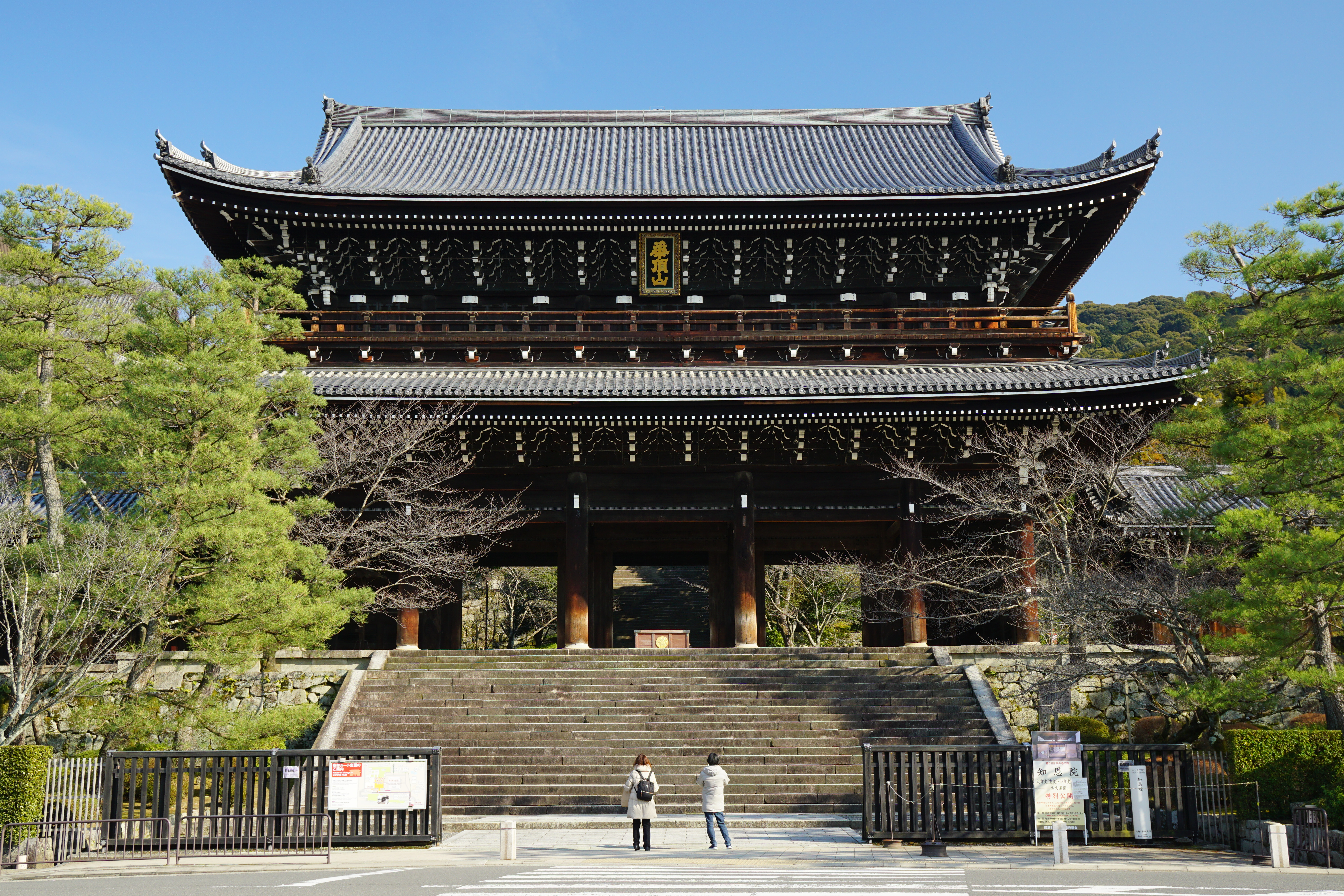 Sanmon of Chion-in Buddhist temple (Japan's national treasure), Kyoto, Kyoto Prefecture, Japan. It was rebuilt in 1621.